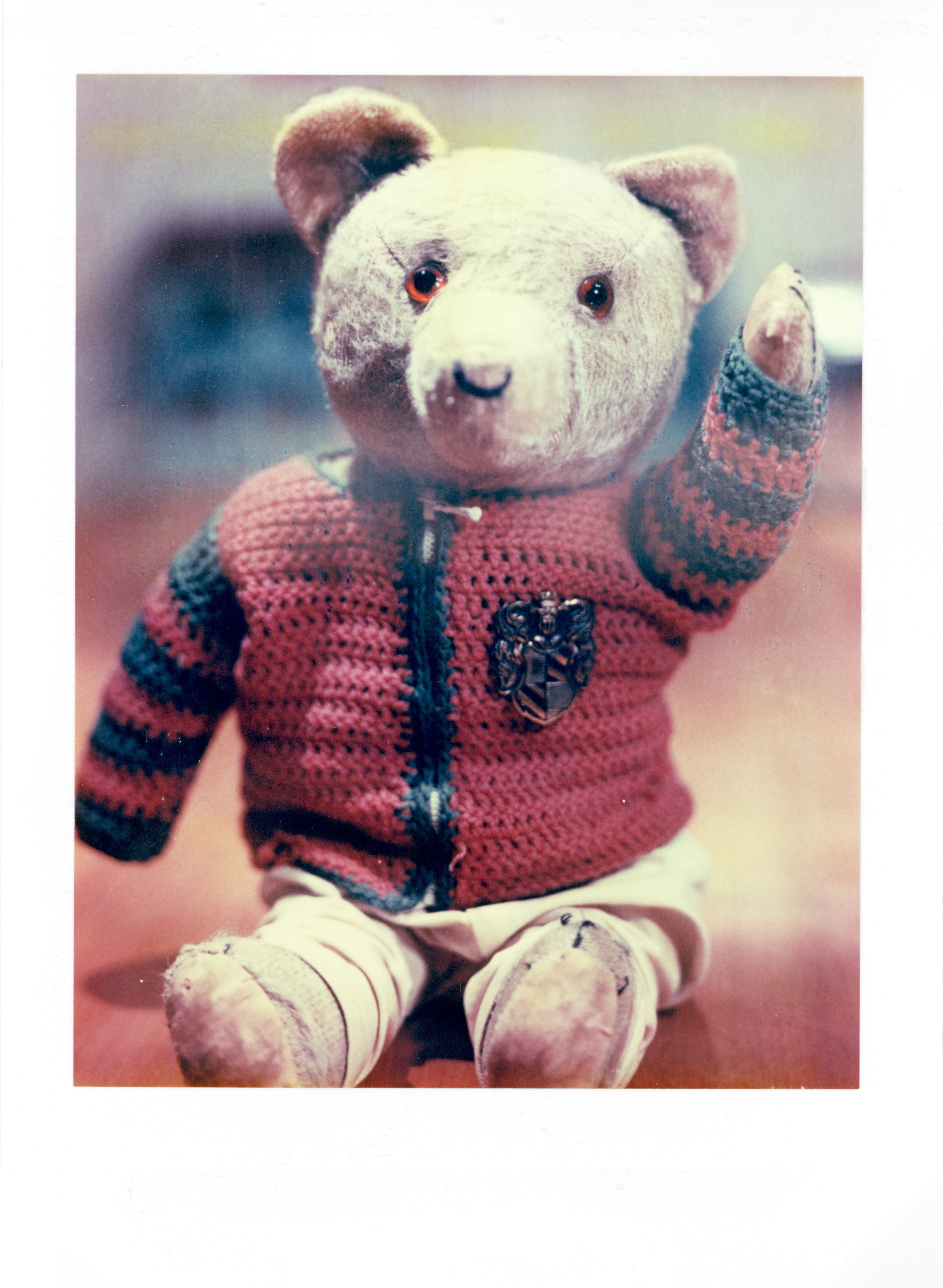 Steiff Bear from the 1960, given to me by my Aunt when I was born. Dress crotcheted / sewn by my mom. 13. Juli 2011 4x5" Camera, Schneider Symmar 150mm F/8, 1sec. Tungsten lights This Polacolor 59 sheet film expired in November 2000 (!) There is still enough developer in the pods. Film speed went down from 80 to 20 ISO. Developpment time is now 3' instead of 1' There is a lighter zone across the mid section of all photos that was already there when I bought the film in 2002. Film was stored in a cellar at constant temperature but not refrigerated.